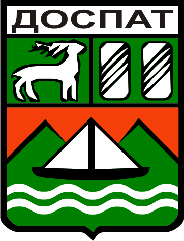 Emblem of city of Dospat, Bulgaria